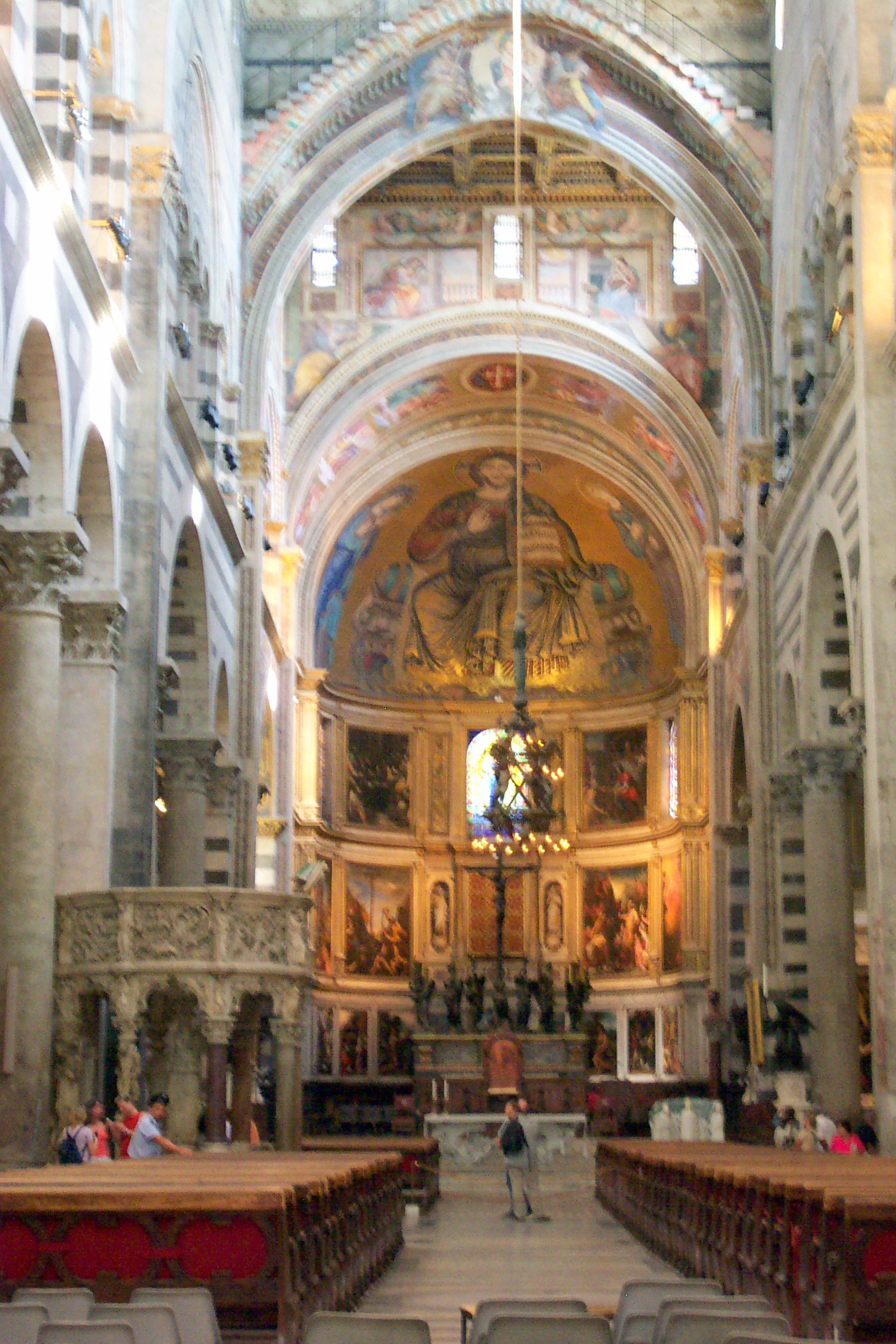 Cathedral altar, Pisa, ItalyDCP_2921